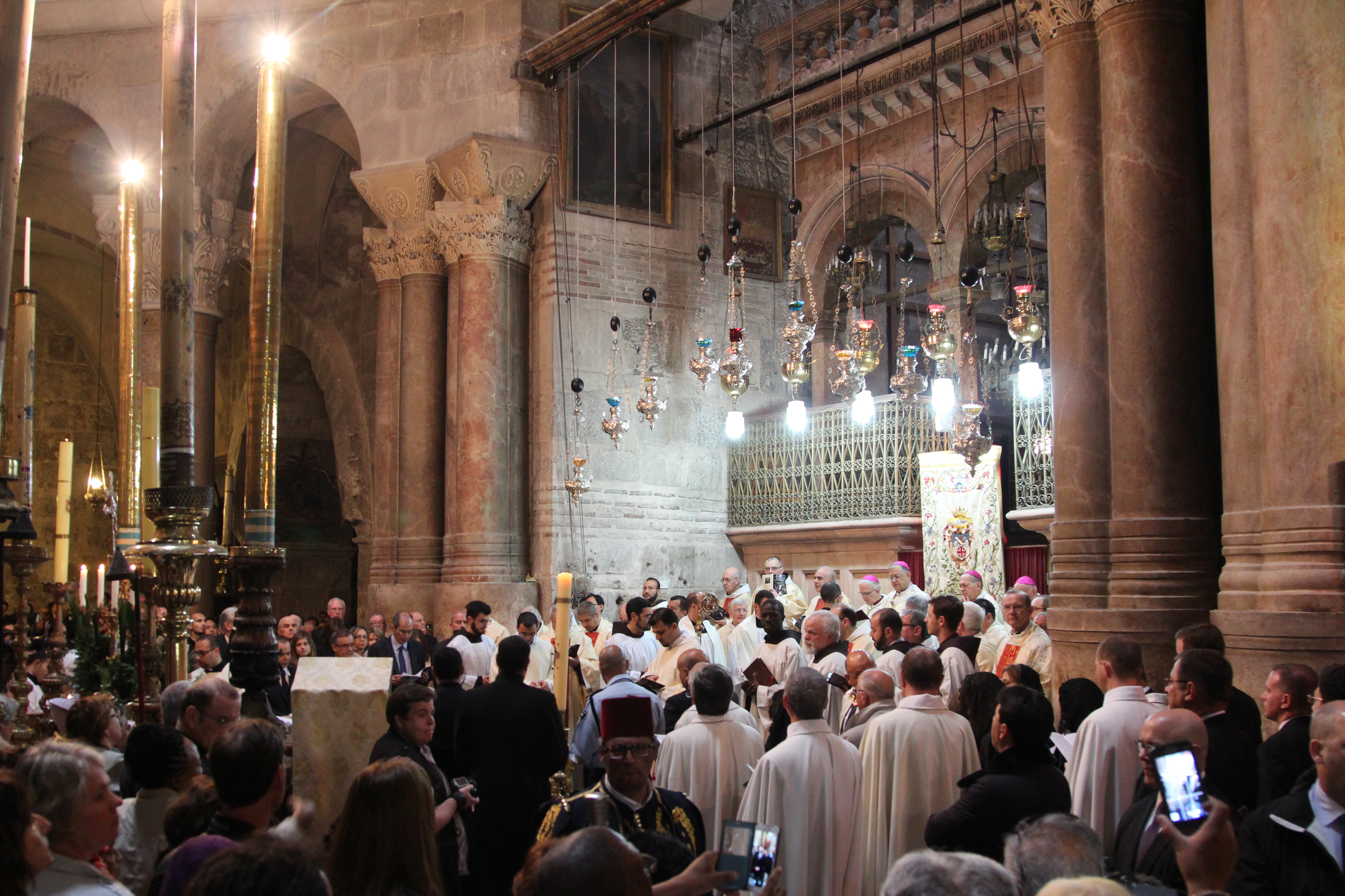 Resurrection Sunday procession in Church of the Holy Sepulchre